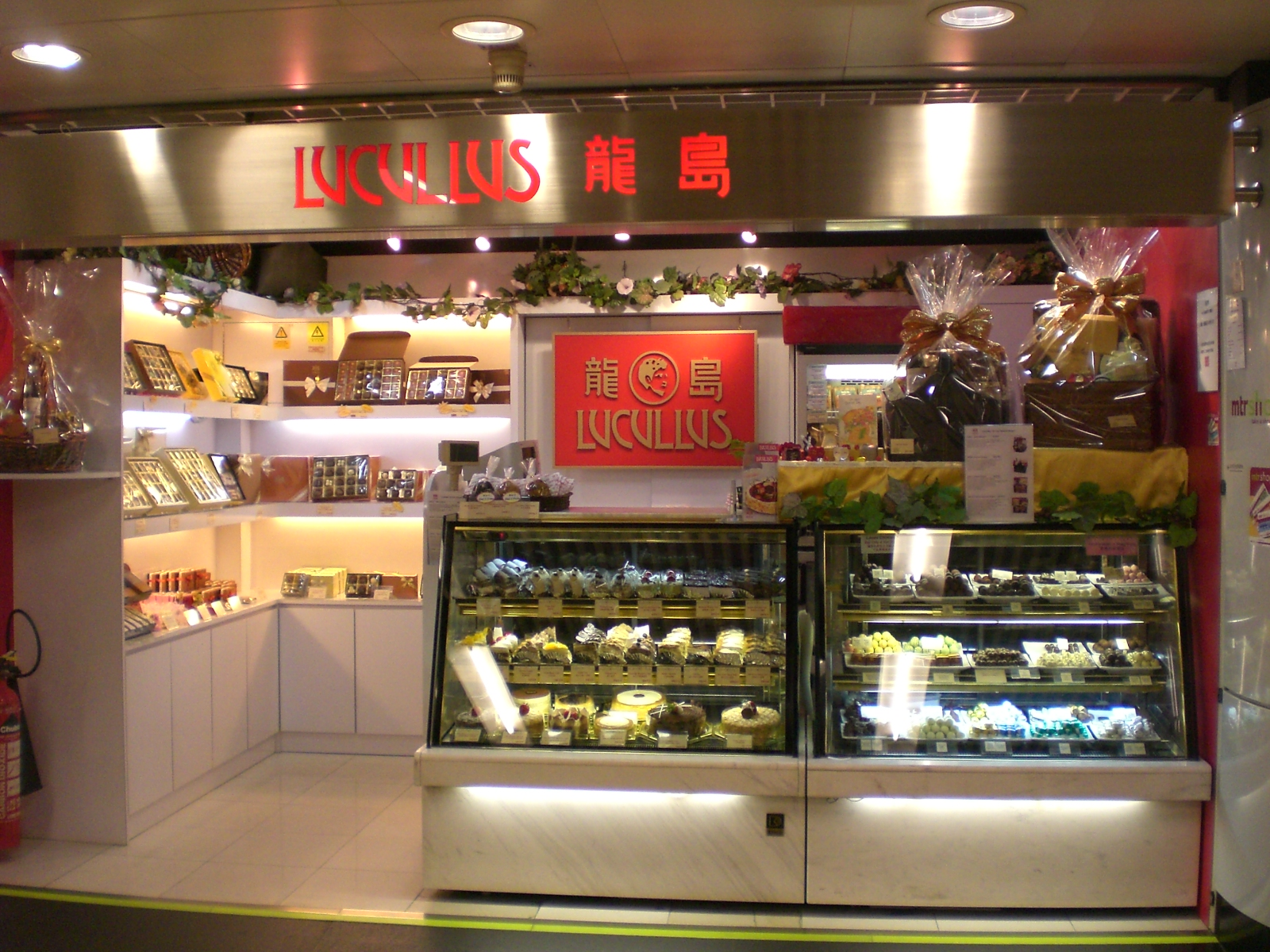 香港餅店 龍島餅店 香港地鐵 中環站 Author= Saiyans16